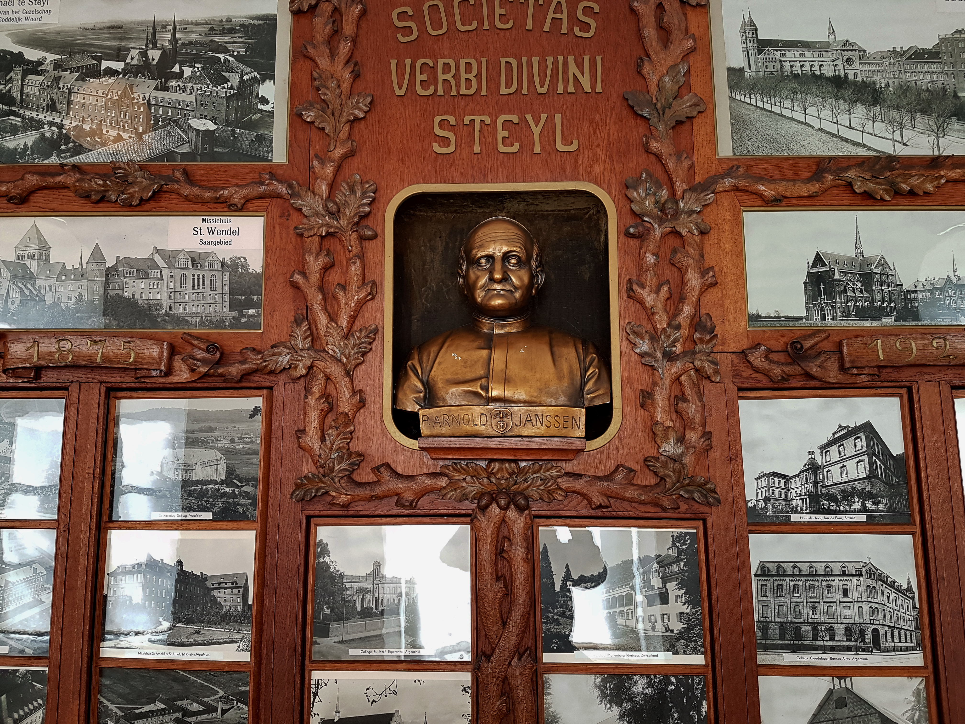 Detail of a photo montage of monasteries of the Society of the Divine Word (Latin: Societas Verbi Divini, abbreviated SVD), founded by Arnold Janssen. Collection of Missiemuseum Steyl, Steyl-Tegelen, Limburg, the Netherlands.